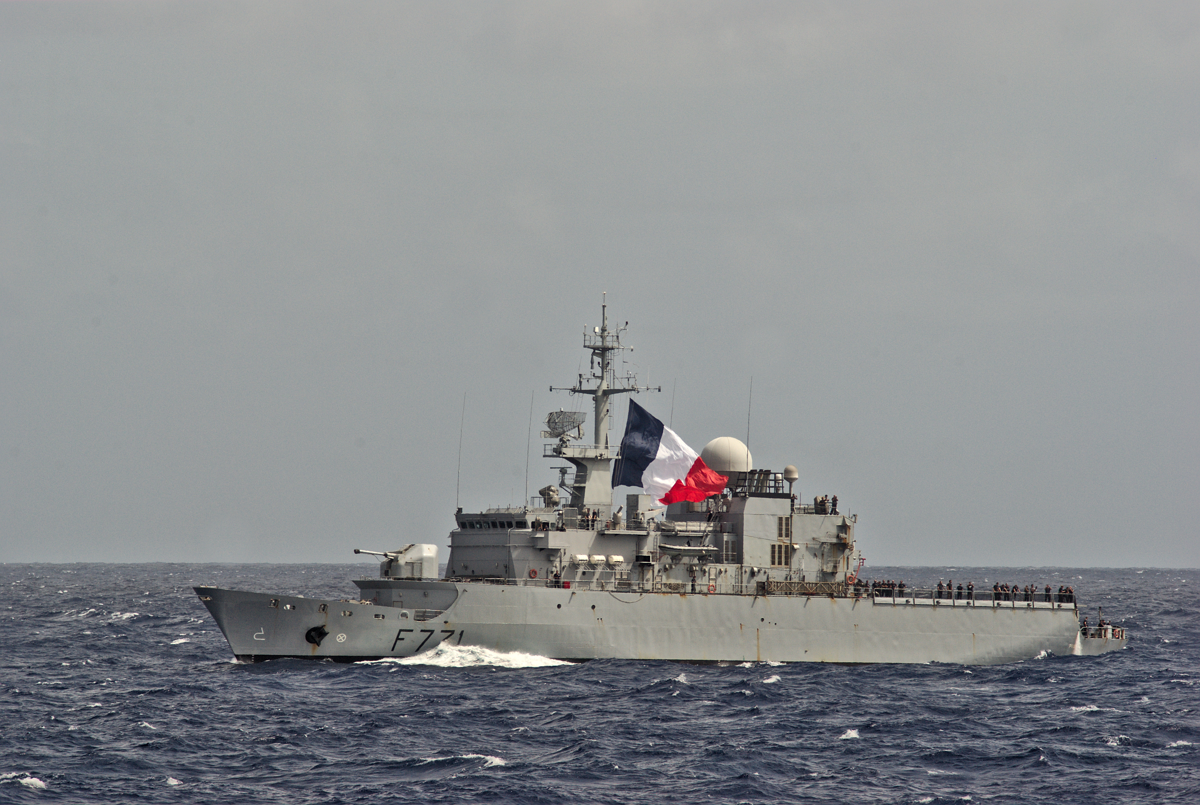 The French frigate Prairial (F731) during exercise RIMPAC 2016.